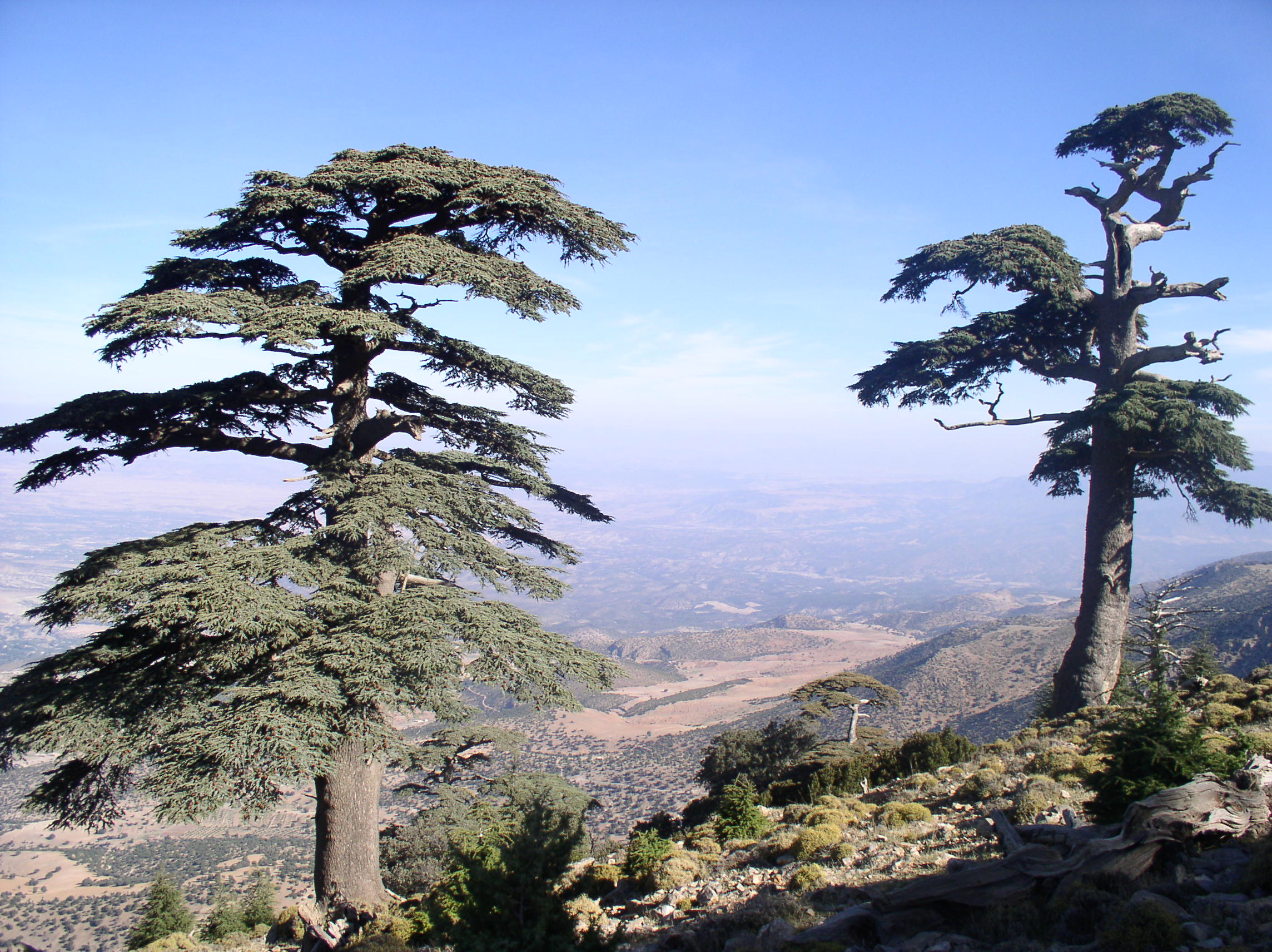 Atlas Cedar at Tichoukte mountains, Boulemane province, Morocco